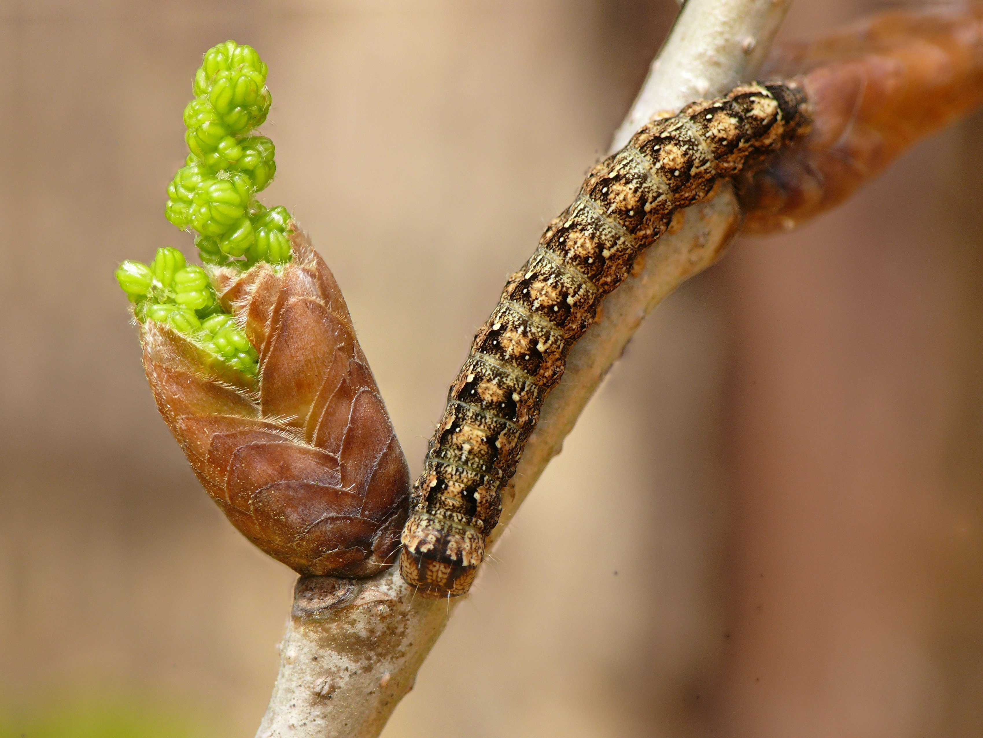 Caterpillar of Merveille-du-Jour (Griposia aprilina). Focus stacking of two pictures made with freeware CombineZP